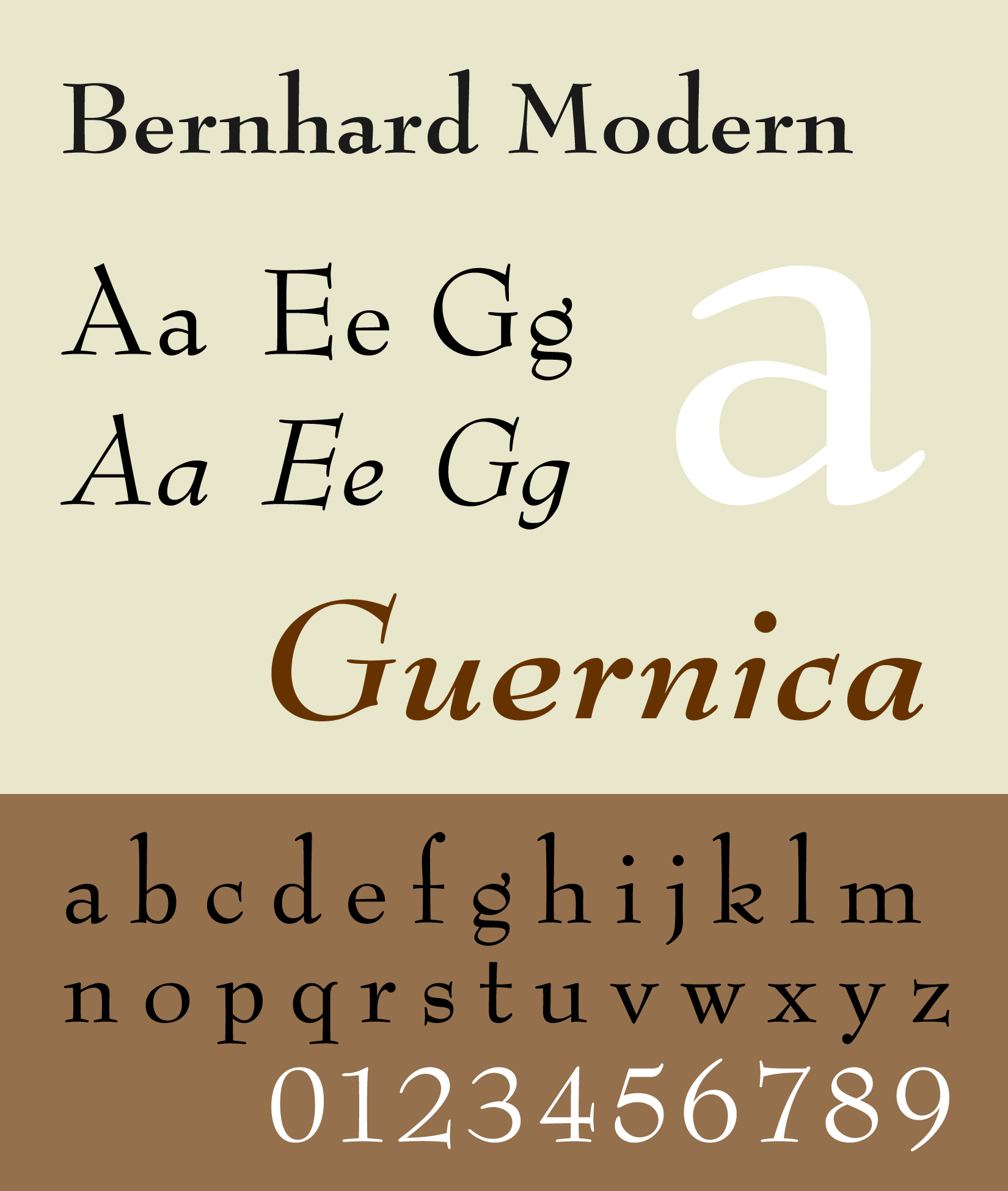 Specimen of the typeface Bernhard Modern by Lucien bernhard, 1937. Designed by Jim Hood.